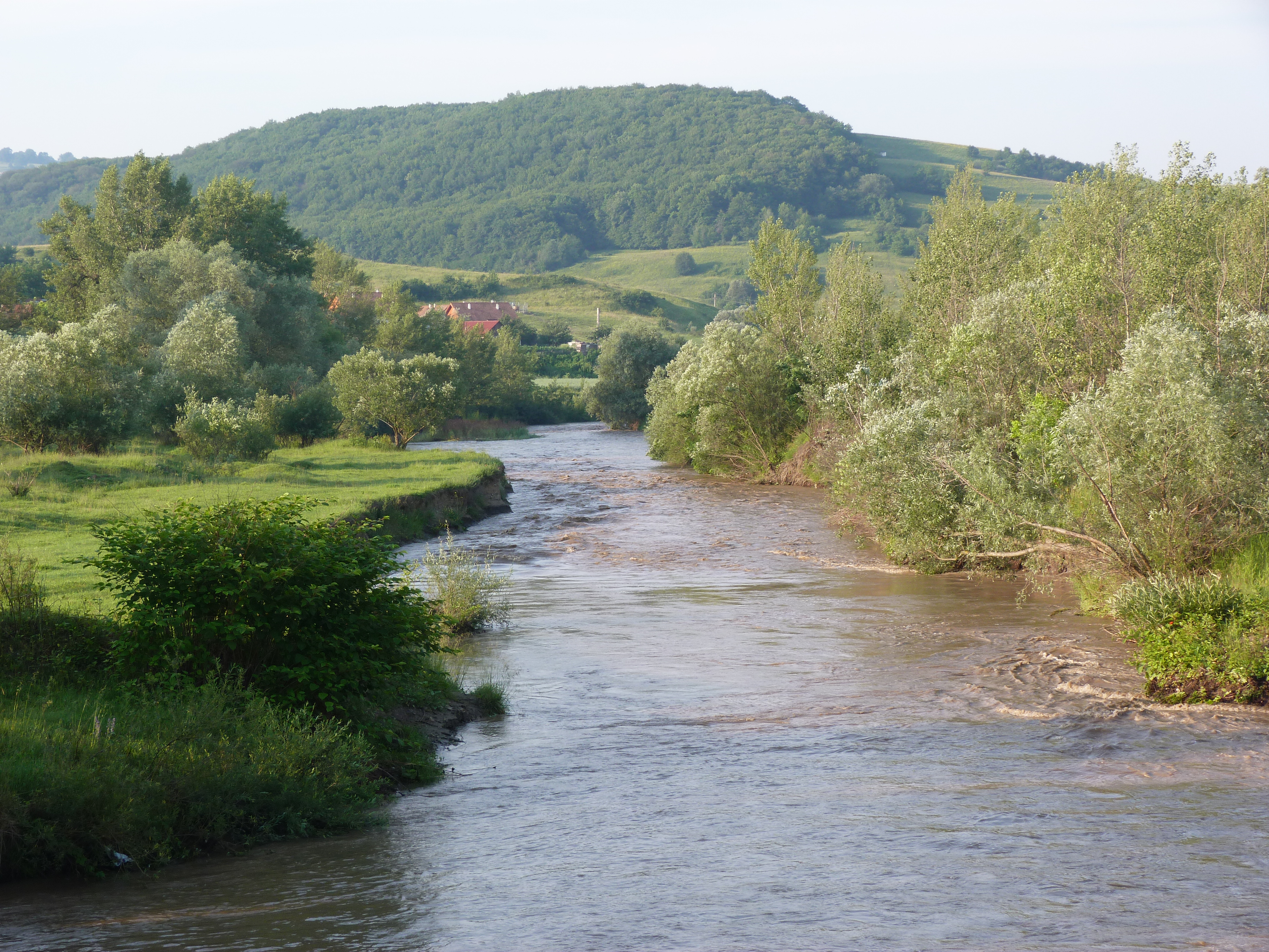 Live on the 20th of June, 2013. Székelykeresztúr. Küküllő river. At 6.18 I reached Küküllő street, where I came all the way down here. The rising Sun warmed the landscape. Trubled waters of the river were hurrying to the West. A felvételek 2013. Június 20 –án csütörtökön készültek Székelykeresztúron. Hajnalban, 6.18 –kor érkeztem a főuton a Küküllő utcához, ahol le lehet menni a Küküllőhöz. A jelenlegi Liedl áruház mögötti területen konyhakertek, kis házak, régi és új blokképületek. A Küküllőt galériaerdő kiséri. Túlsó partján legelők. A felkelő Nap fénye lassan melegítette át a tájat. Sárgarigók köszöntötték az új napot. ©© Published under Creative Commons in the Metapolisz DVD line. All of the photos and vids in the Metapolisz DVD line are under Creative Commons and can be used even for commercial – for profit – purposes. Recommended Citation Derzsi Elekes Andor: Metapolisz DVD line Forrás: Székely huszárok Time: mashine time + 1 hour